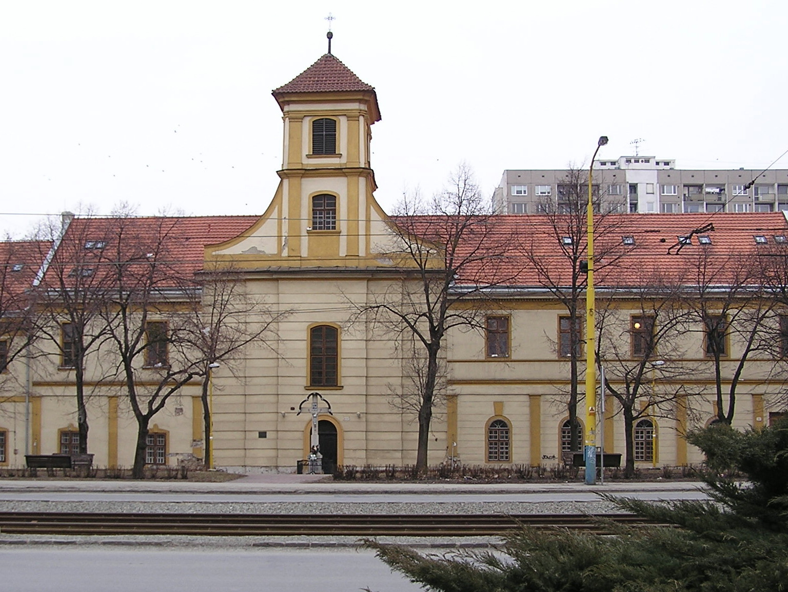 The Holy Spirit Church at Južná ulica (South Street) in Košice, Slovakia.